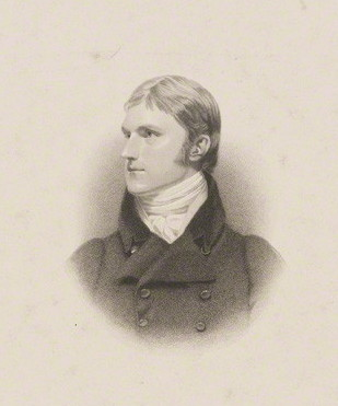 This picture was taken from a book titled "The life of the Right Honourable Stratford Canning, viscount Stratford de Redcliffe" by Stanley Lane-Poole published by Longmans, Green and Co. in London in 1888.